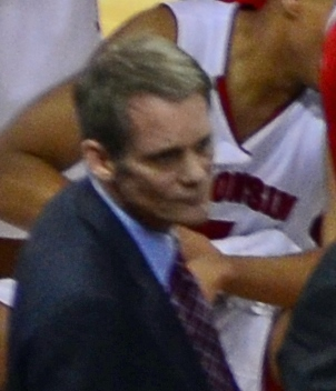 University of Wisconsin-Madison men's basketball asst. coach Gary Close.